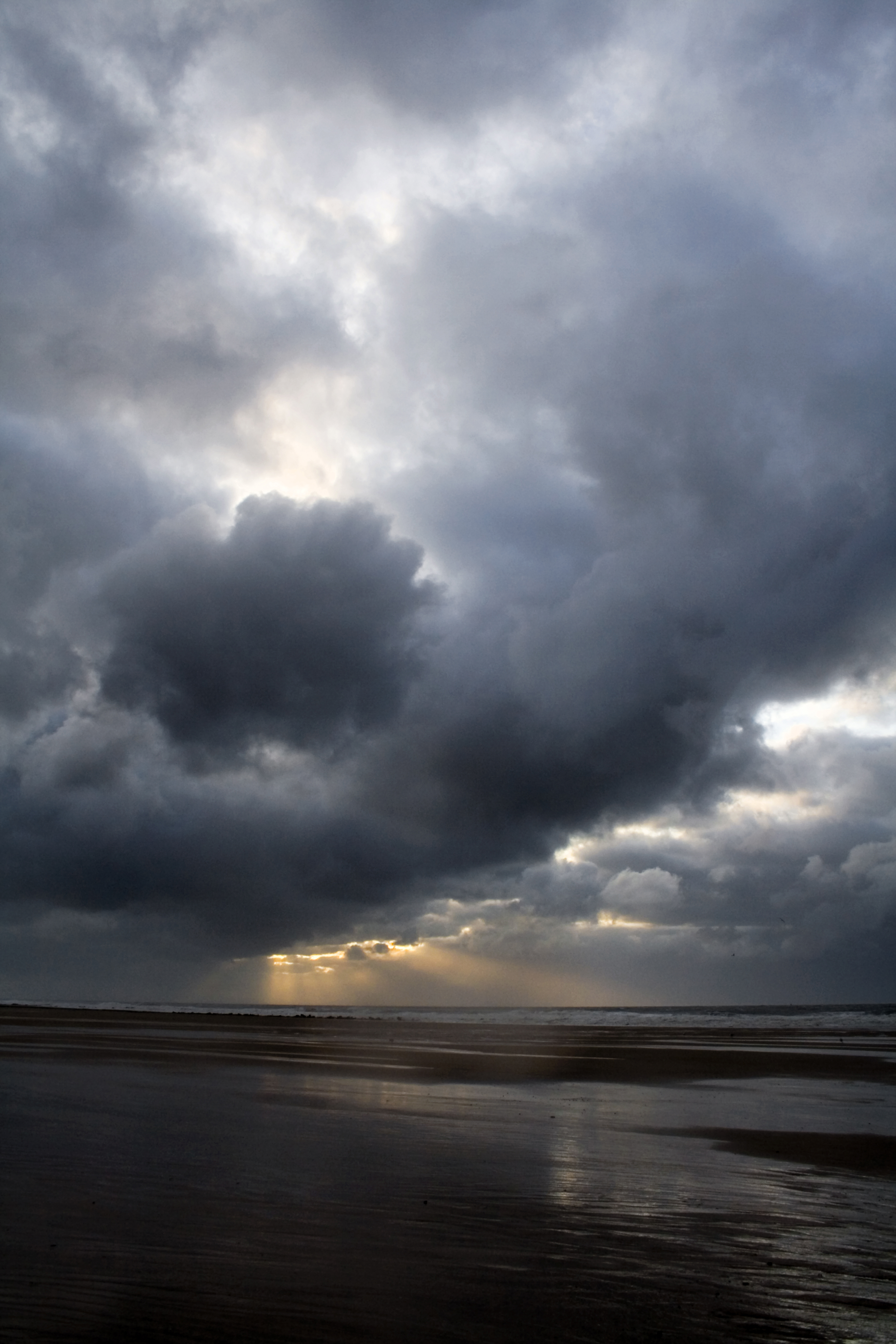 Cloudy skies from Tropical Storm Grace (2009) in Belgium.